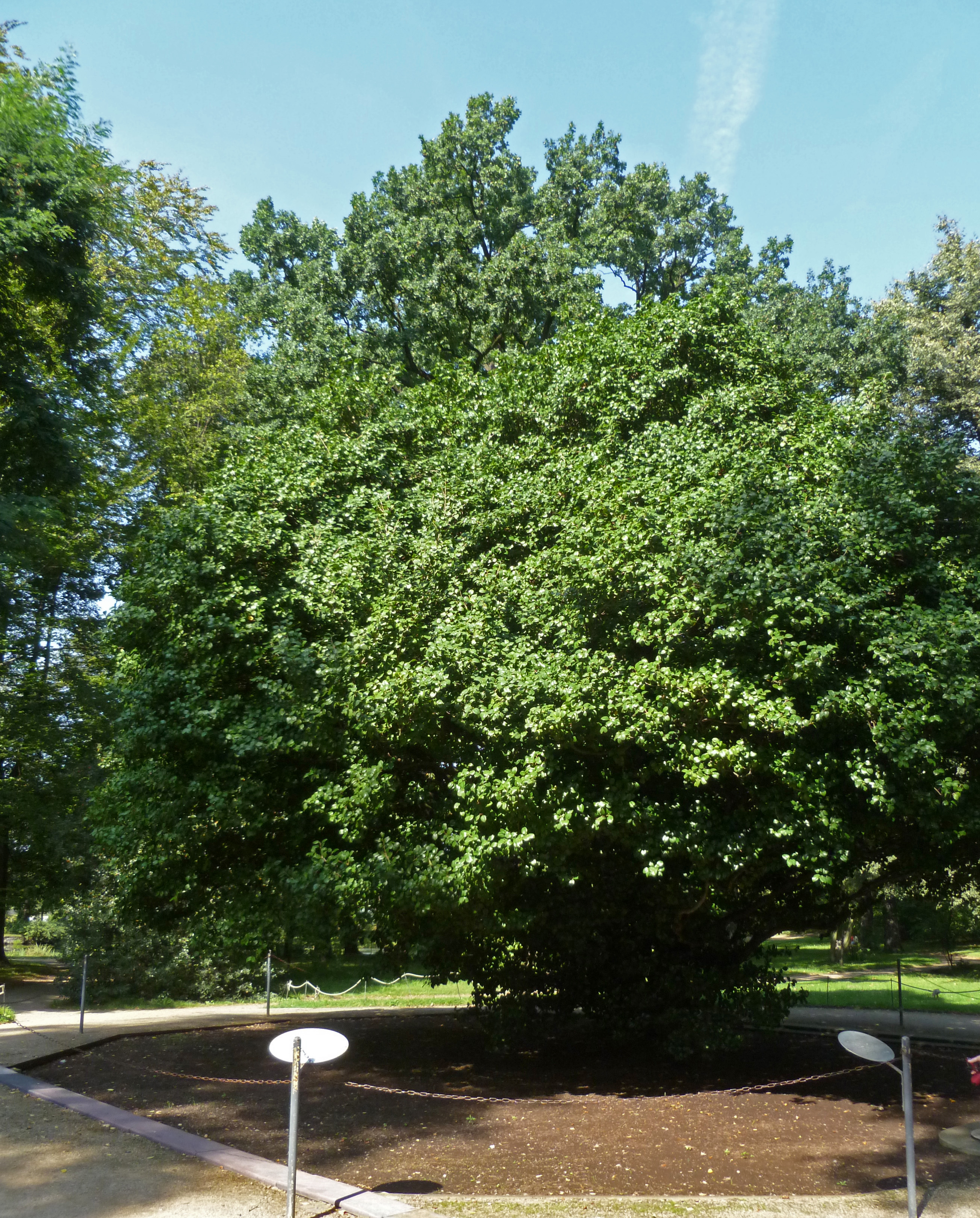 Camellia japonica, Theaceae; botanical garden of Pillnitz castle, Germany